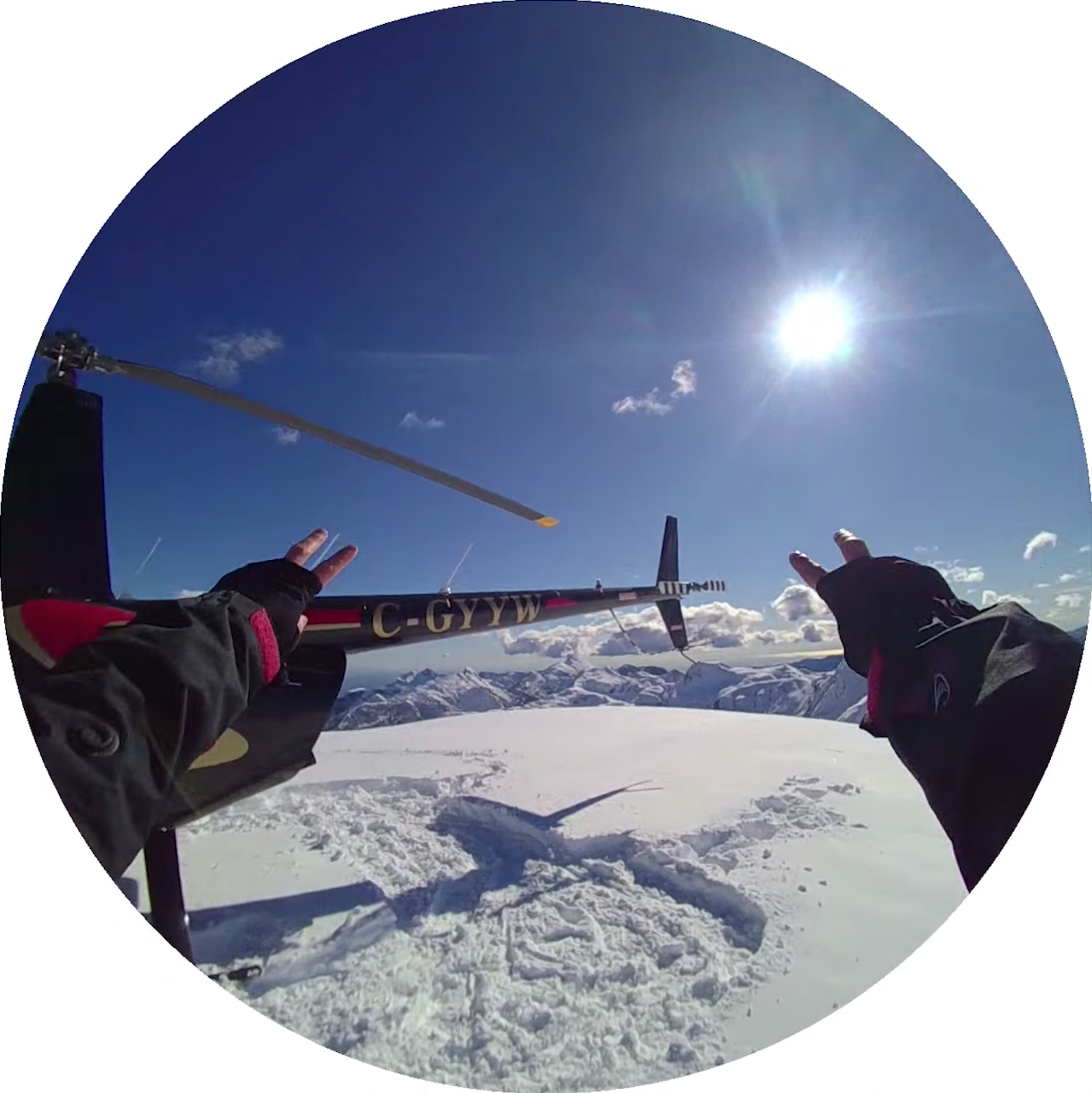 The Spectacles circular video format